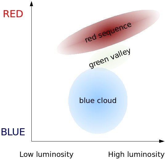 Galaxy color–magnitude diagram showing red sequence, green valley, and blue cloud.